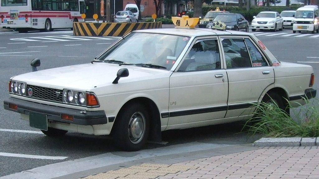 Nissan Bluebird (910) taxi (Japanese version) Location:in Fukuoka City, Fukuoka, Japan